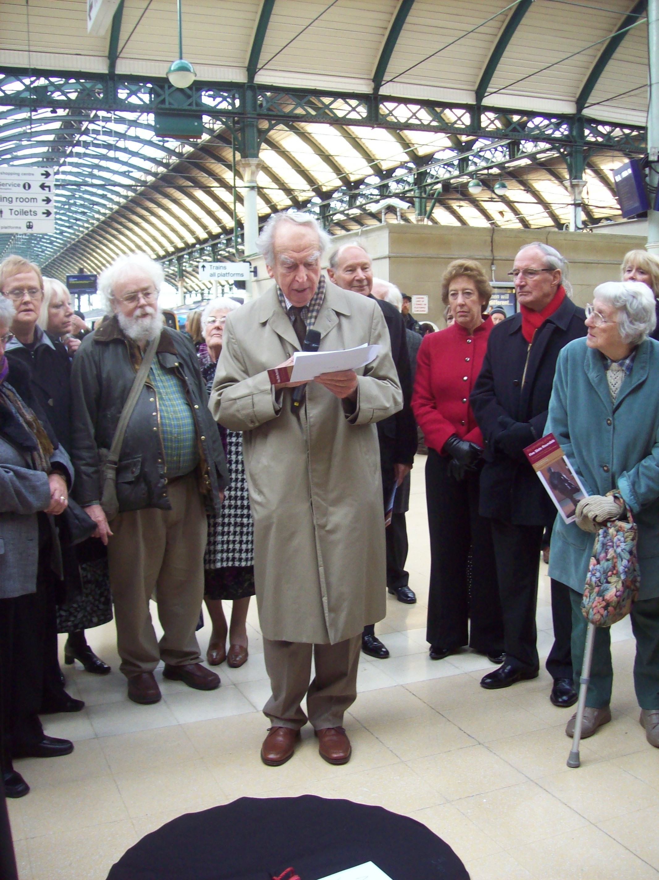 Dawes unveiling a roundel commemorating Larkin at Hull Paragon Station in December 2011